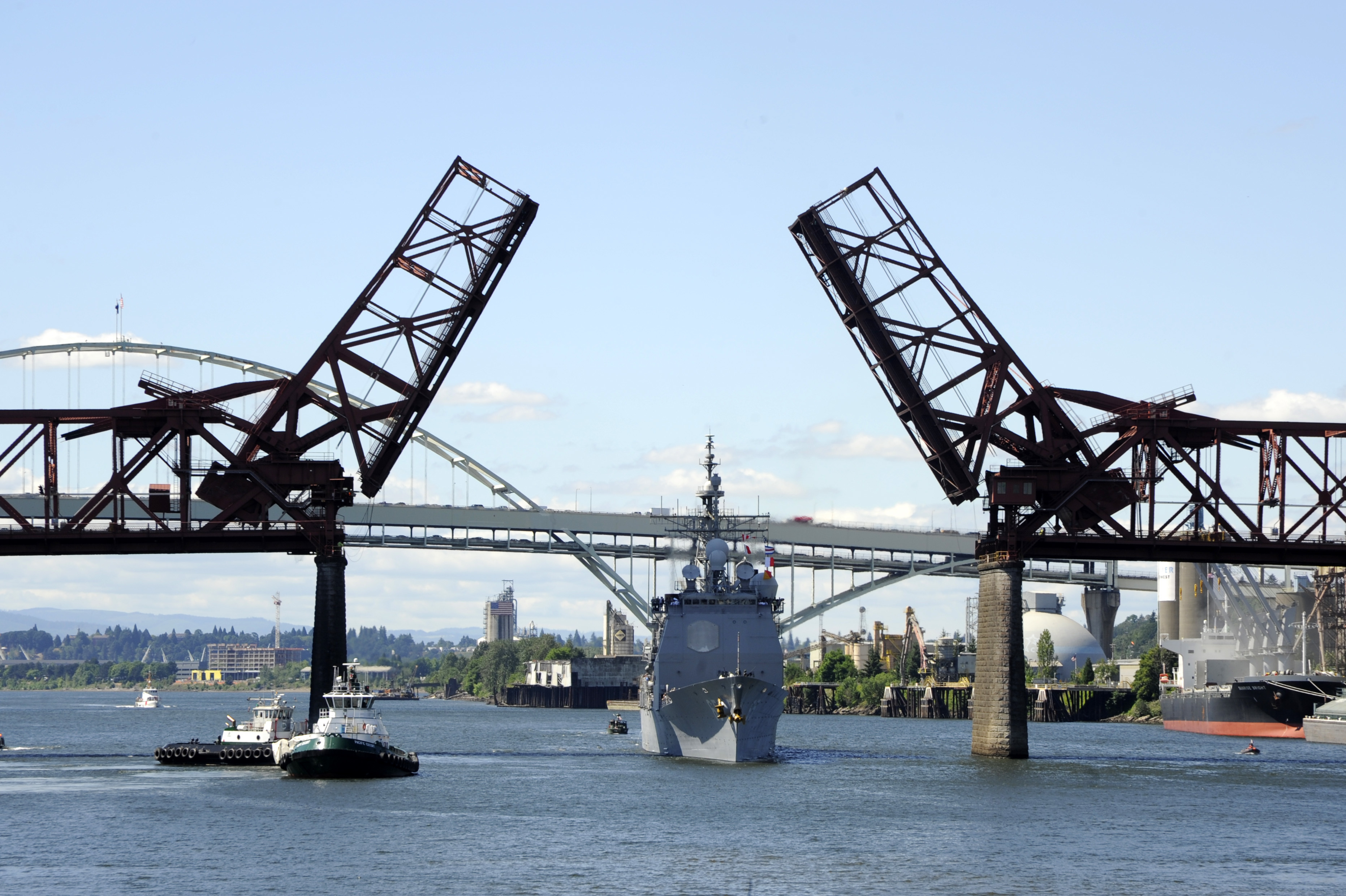 150604-N-AI901-184 PORTLAND, Ore. (June 4, 2015) Guided missile cruiser USS Chosin (CG 65) prepares to moor outboard of USS Cape St. George (CG 71) in Portland Harbor to kick off the 106th annual Portland Rose Festival and Fleet Week. The festival and Portland Fleet Week are a celebration of the sea services, with Sailors, Marines and Coast Guardsmen from the U.S. and Canada making the city a port of call. (U.S. Navy photo by Senior Chief Mass Communication Specialist Eric Harrison/RELEASED)